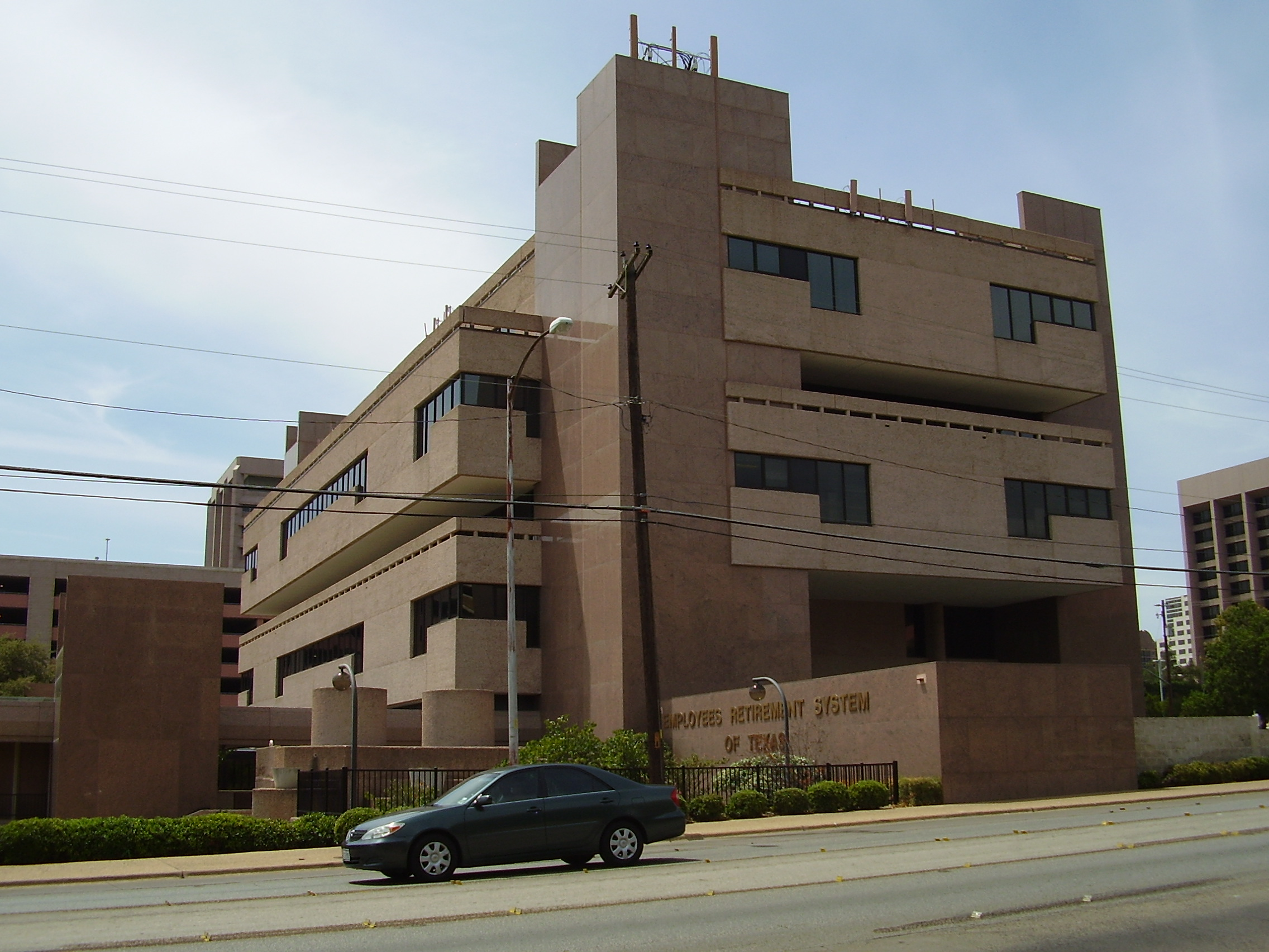 Employees Retirement System of Texas